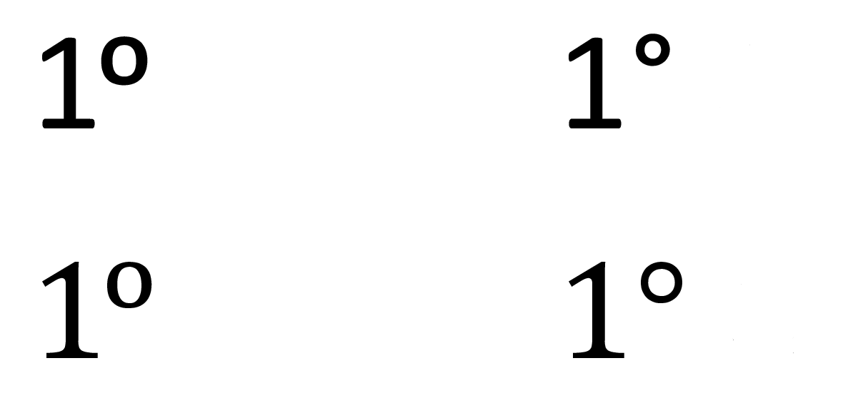 Difference between Italian masculine ordinal indicator and degree sign.